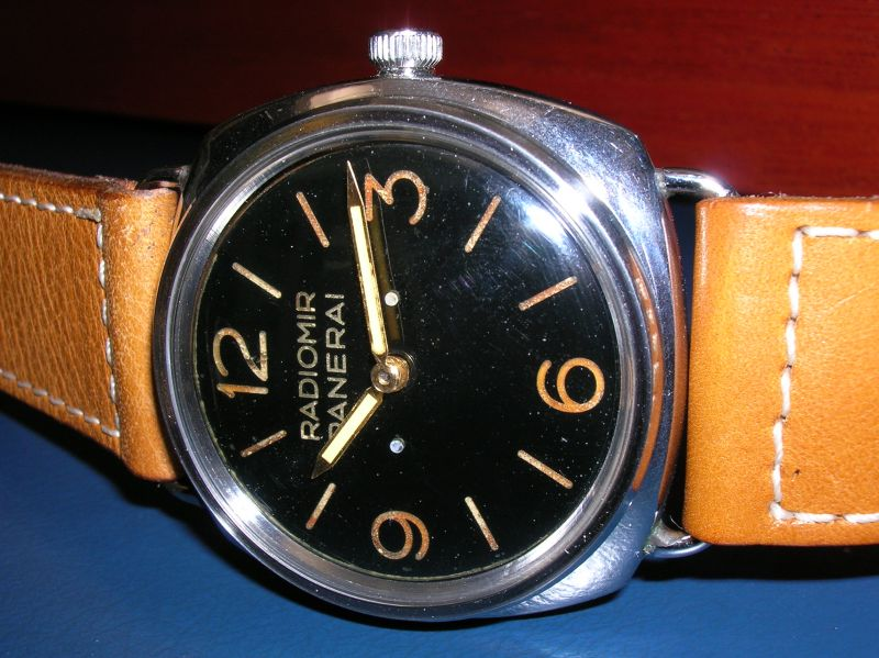 This work is free and may be used by anyone for any purpose. If you wish to use this content, you do not need to request permission as long as you follow any licensing requirements mentioned on this page.